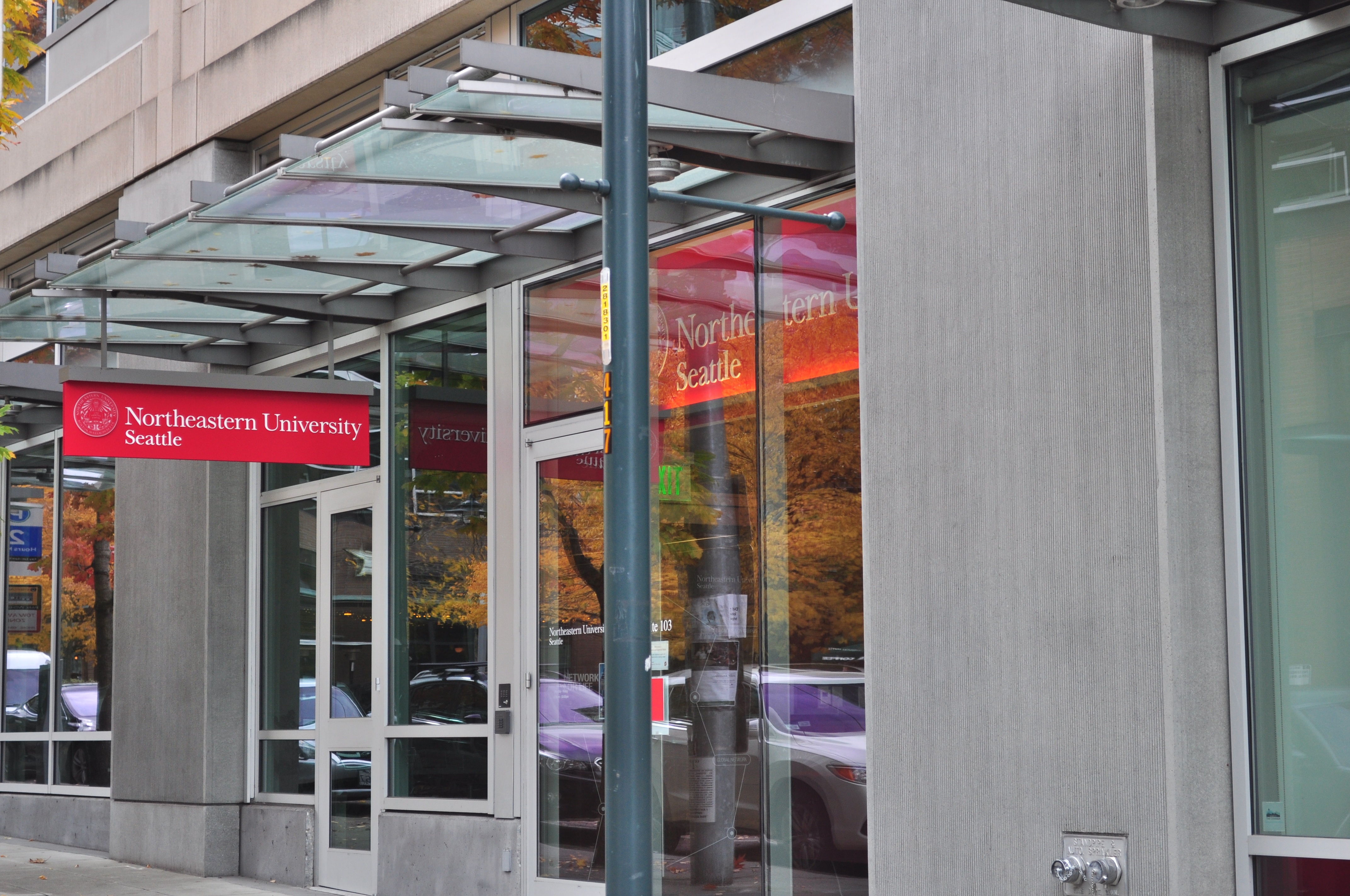 Northeastern University - Seattle; South Lake Union, Seattle, Washington.